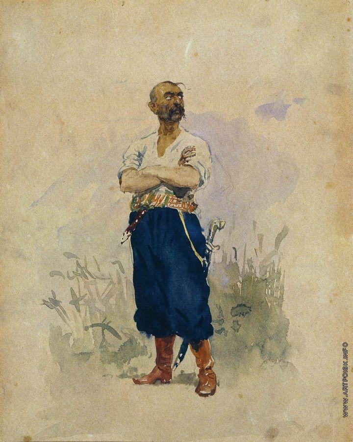 Cossack of the Zaporozhian Sich by painter Ilya Repin, who was himself of Ukrainian cossack heritage.